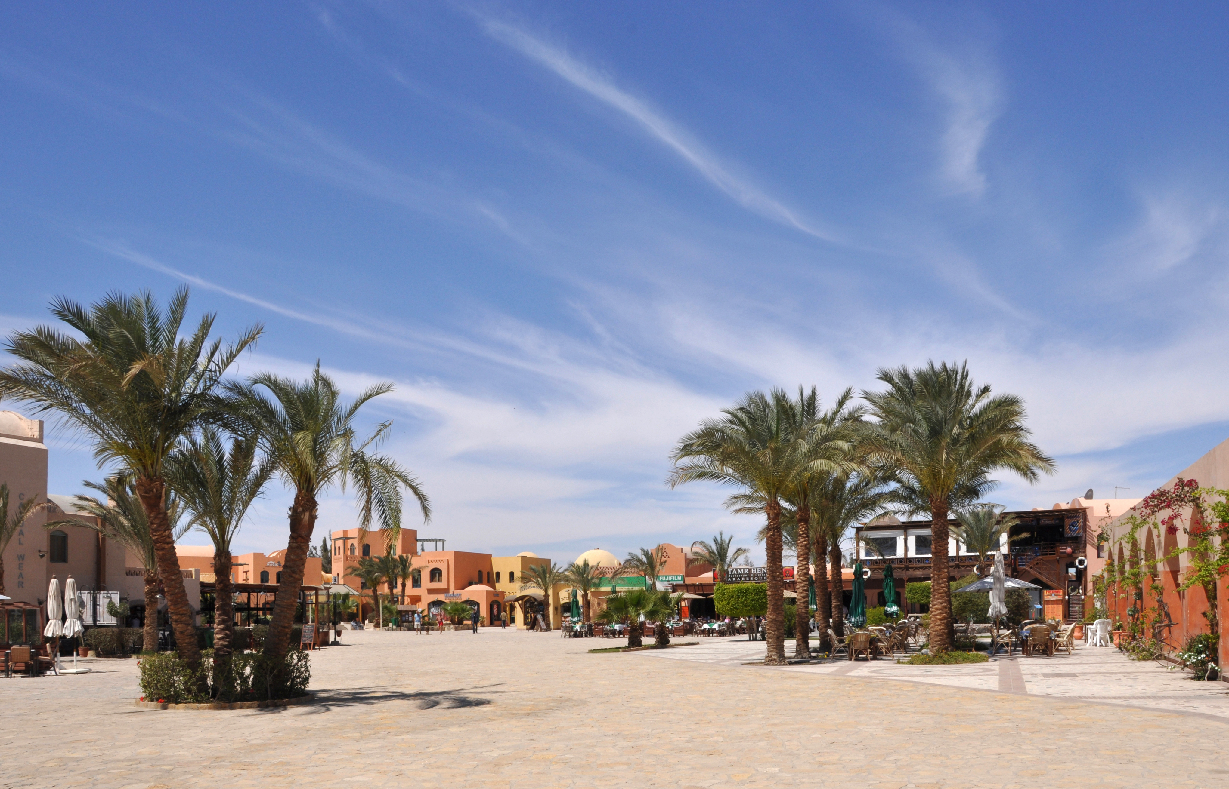 El Gouna (Egypt): Tamr Henna Square